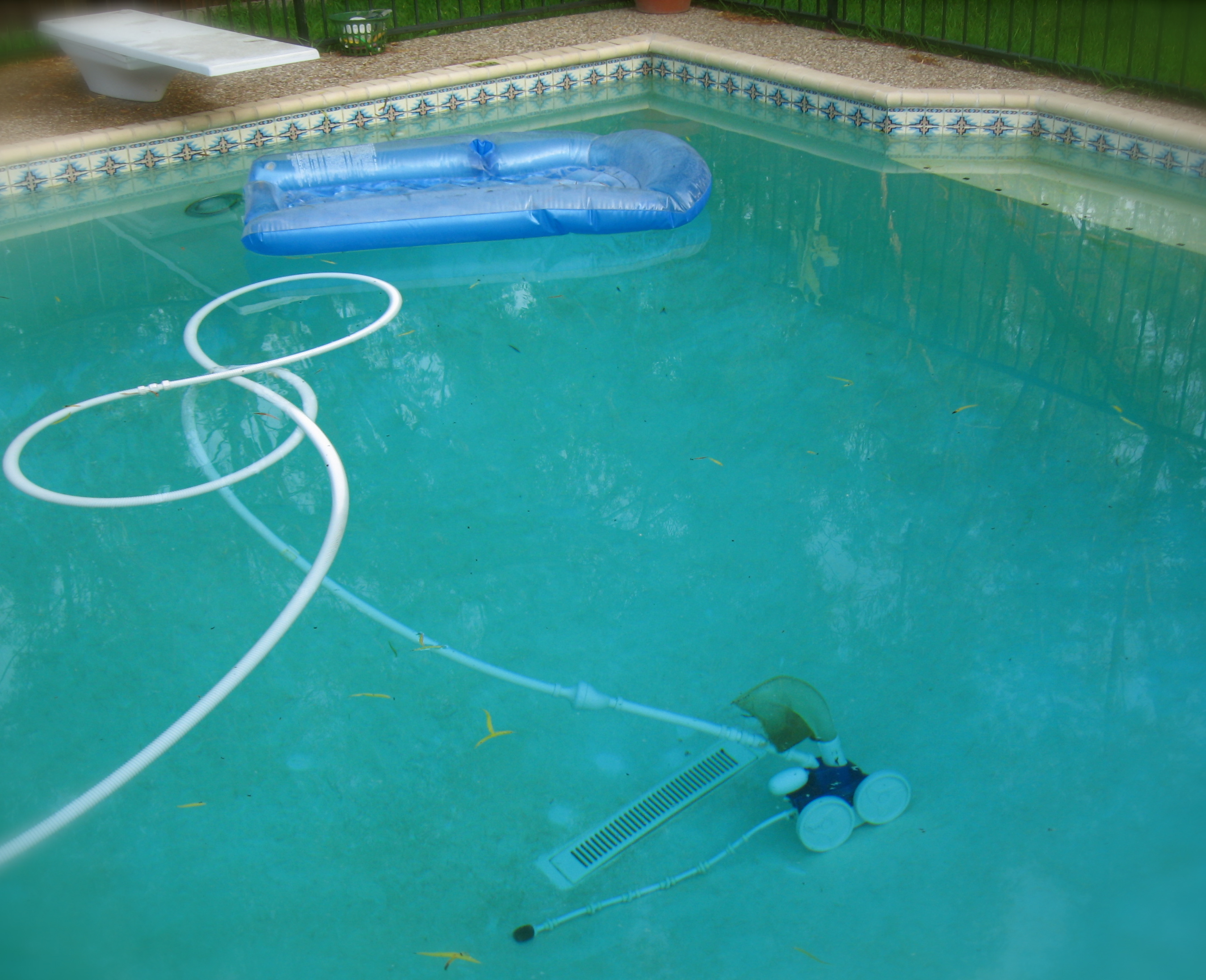 photo of an automated pool cleaner (Polaris 360 model) from my pool.